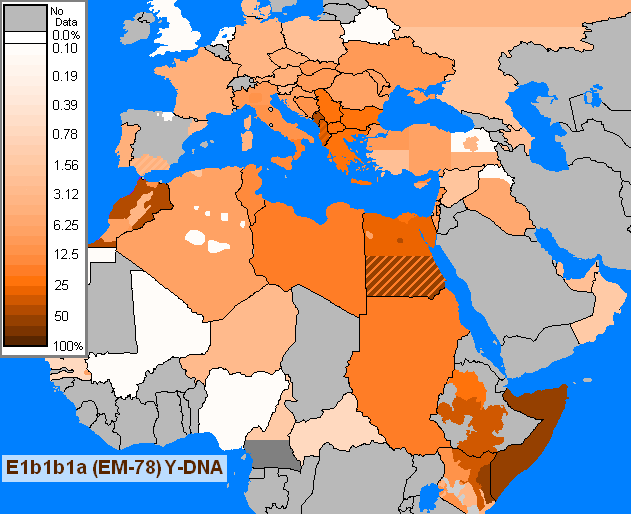 ==Distribution of Y haplotype EM-78 E1b1b1a in North Africa, West Asia and Europe. Data psuedocolored based on data in Table 1. from (Am J Hum Genet. 2004 May; 74(5): 1023–1034.) Regions with stripes indicate data given twice of a region but substantively different values. For Albania, the colors indicate Calabrian Albanians or Albanians, For Israel the colors are either Ashkenazi or Sephardic Jews. The map from which the boundaries were derived was rebordered black, bodies of water were recolored blue. The image was painted in paintbrush.